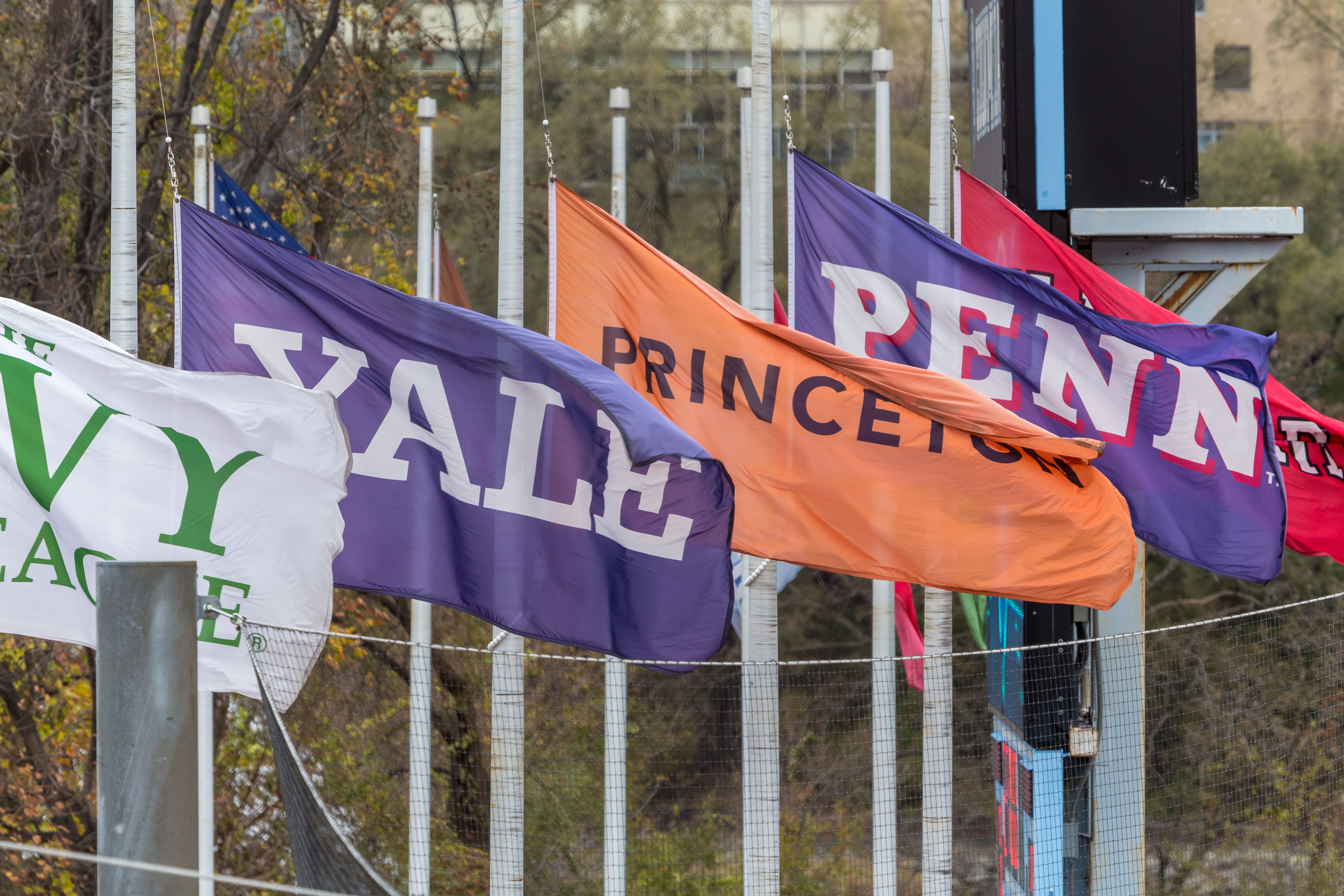 Flags of the Ivy League fly at Columbia's Wien Stadium.